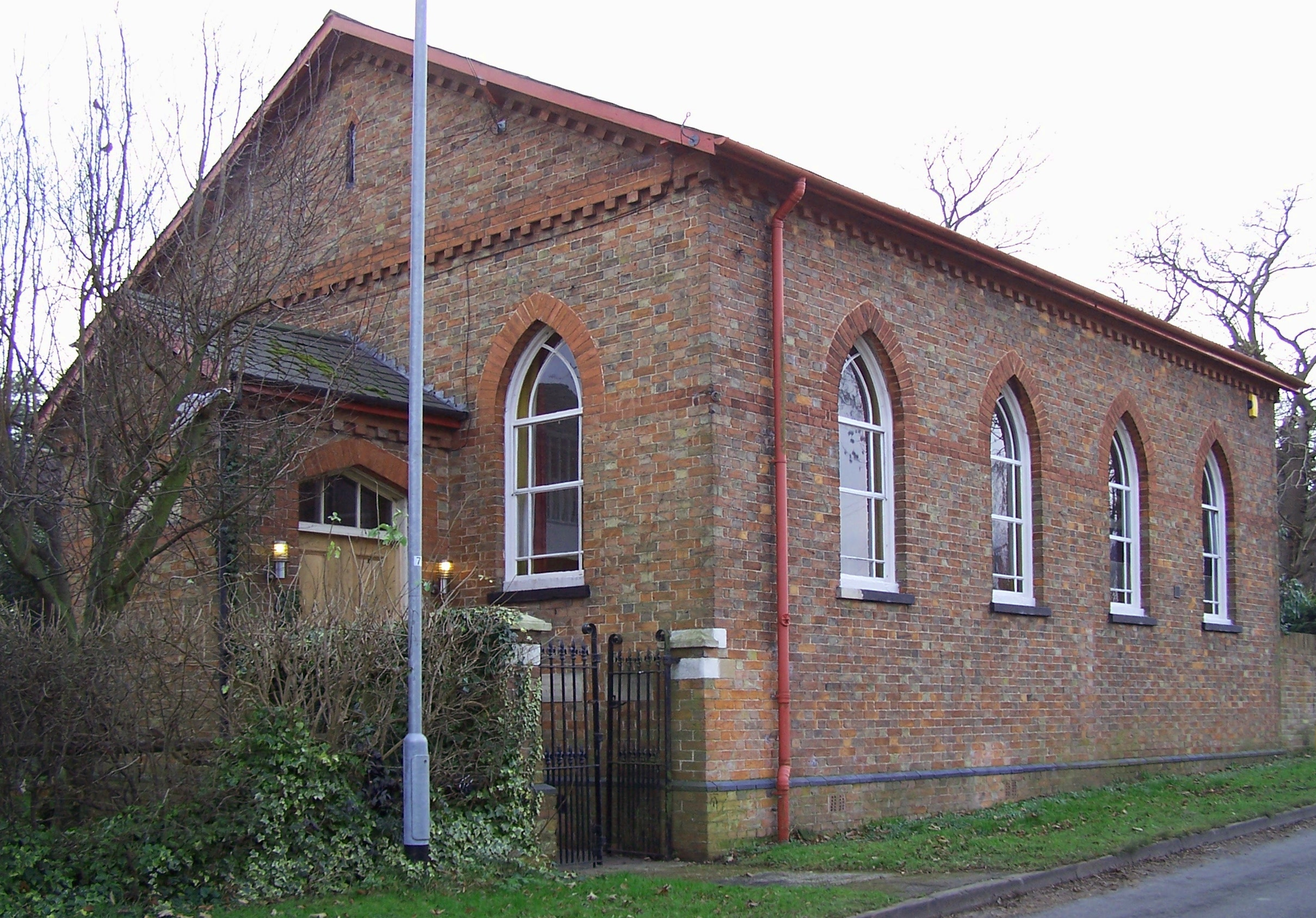 Former Wesleyan chapel in Kinoulton, Nottinghamshire: now a private home